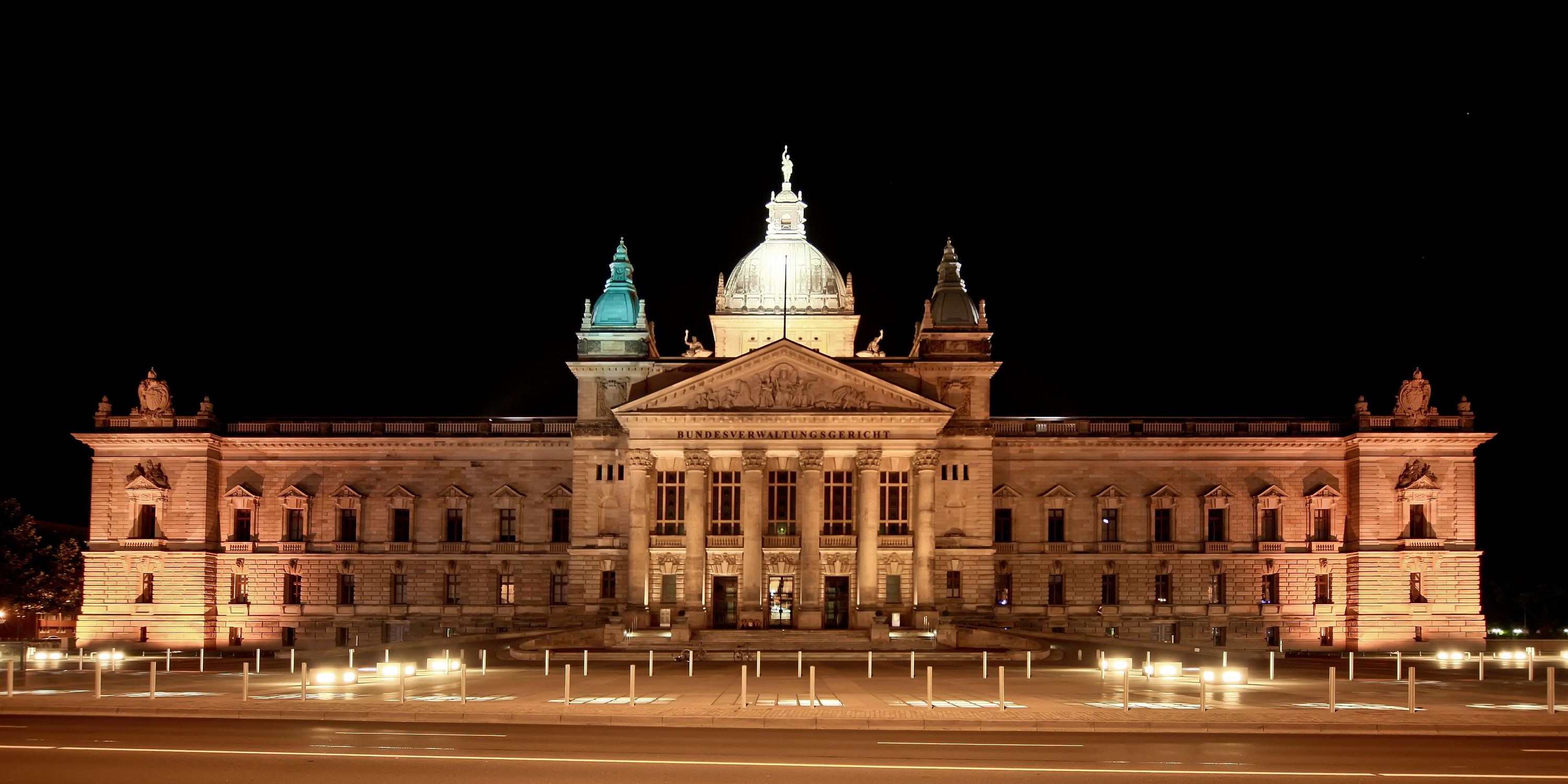 Federal Administrative Court Leipzig at night front